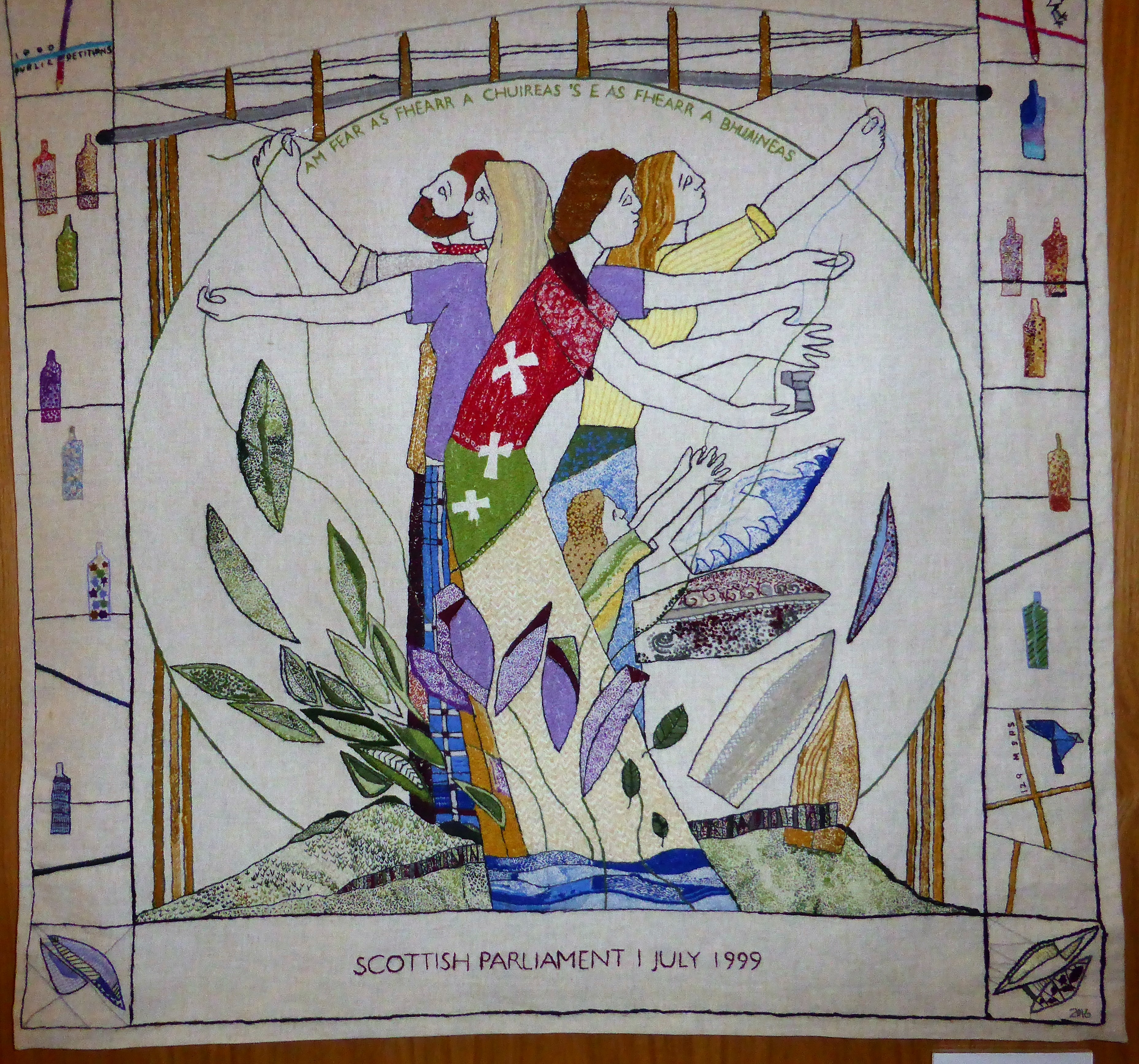 Last panel of the Great Scottish Tapestry, stitched by visitors to the exhibitions and presented to the Scottish Parliament